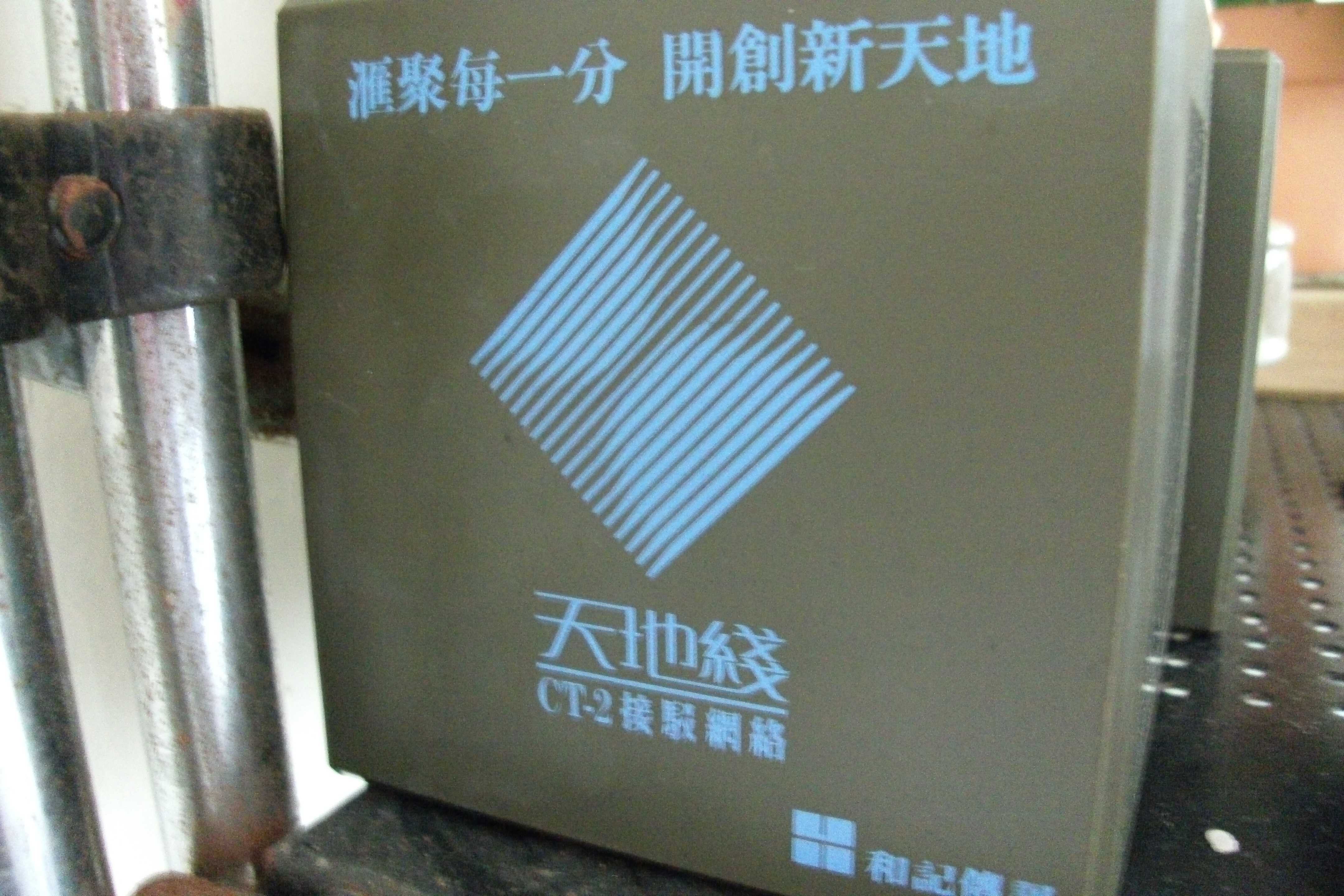 Now defunct CT-2 service in Hong Kong